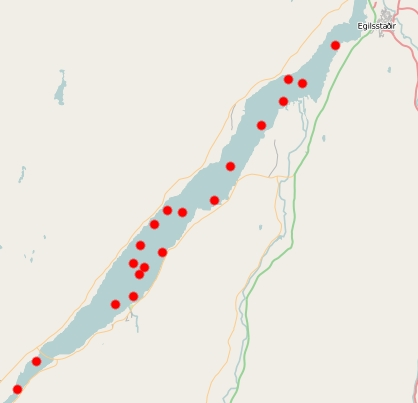 Lagarfljot worm sightings in iceland